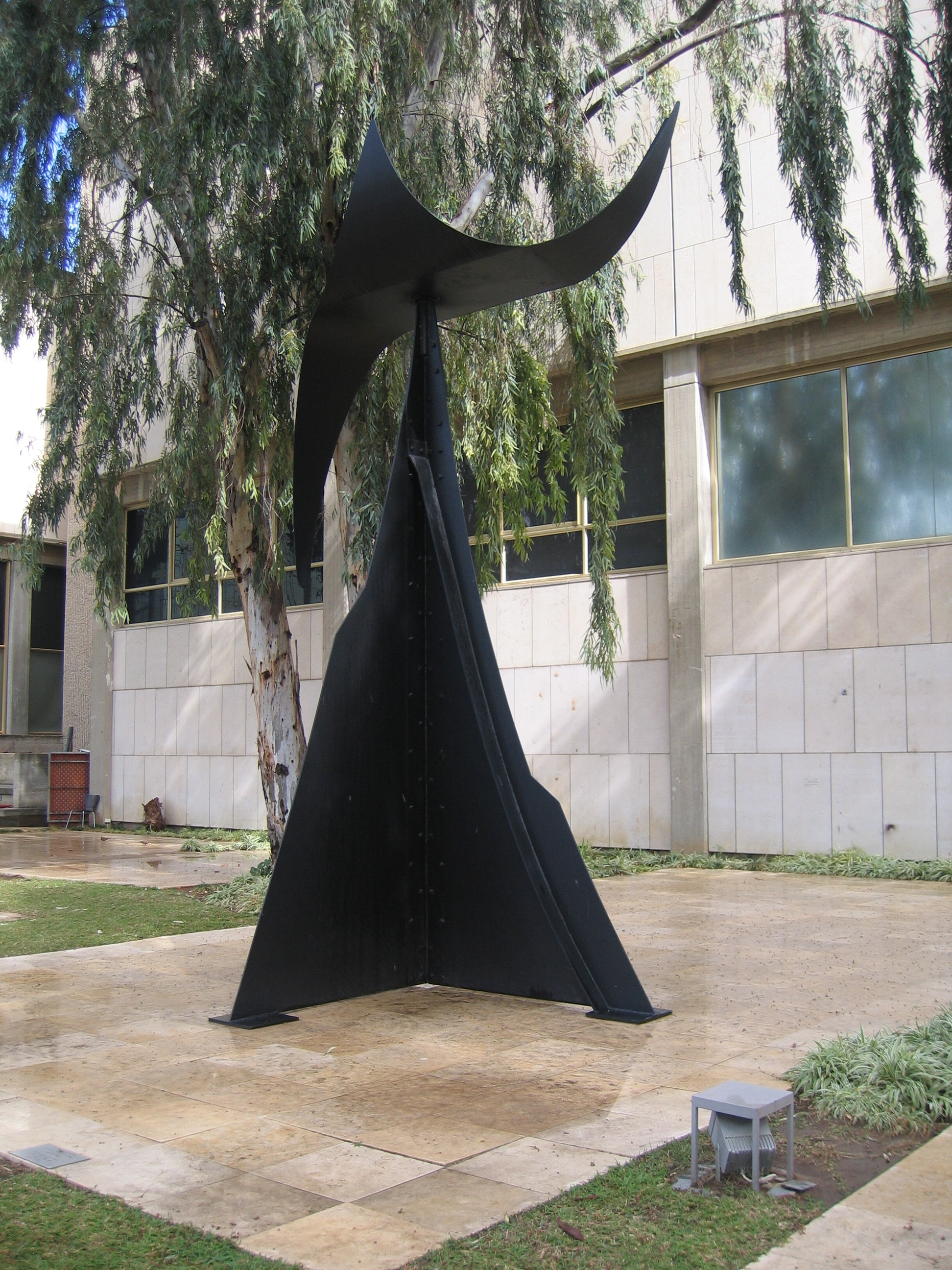 Feuille d'arbre (1974) by Alexander Calder in Tel Aviv, Israel.